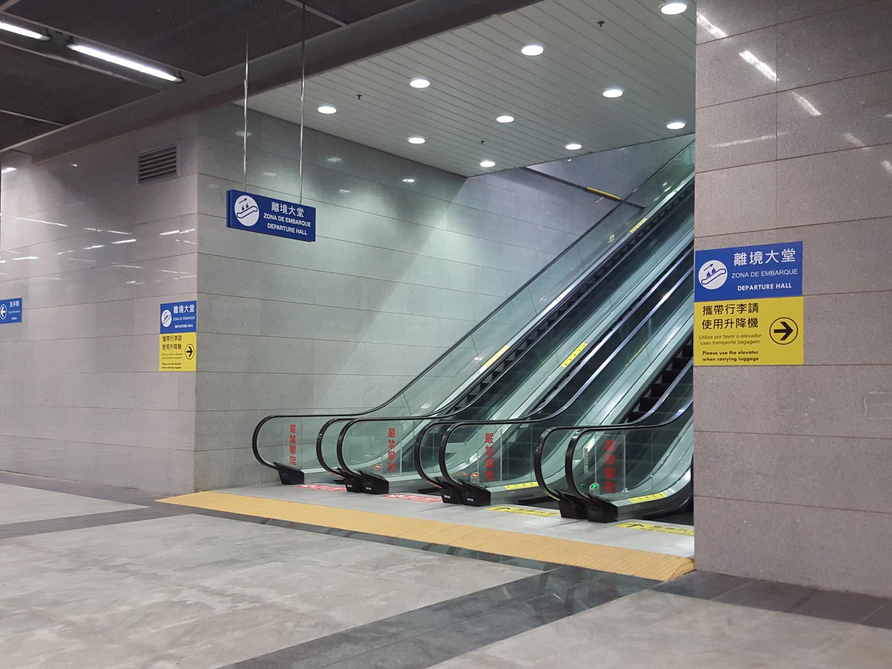 Taipa Ferry Terminal